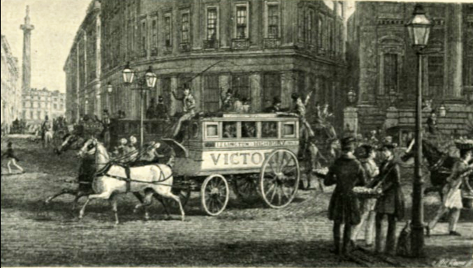 A Knife-board omnibus p.65 of Omnibuses and Cabs